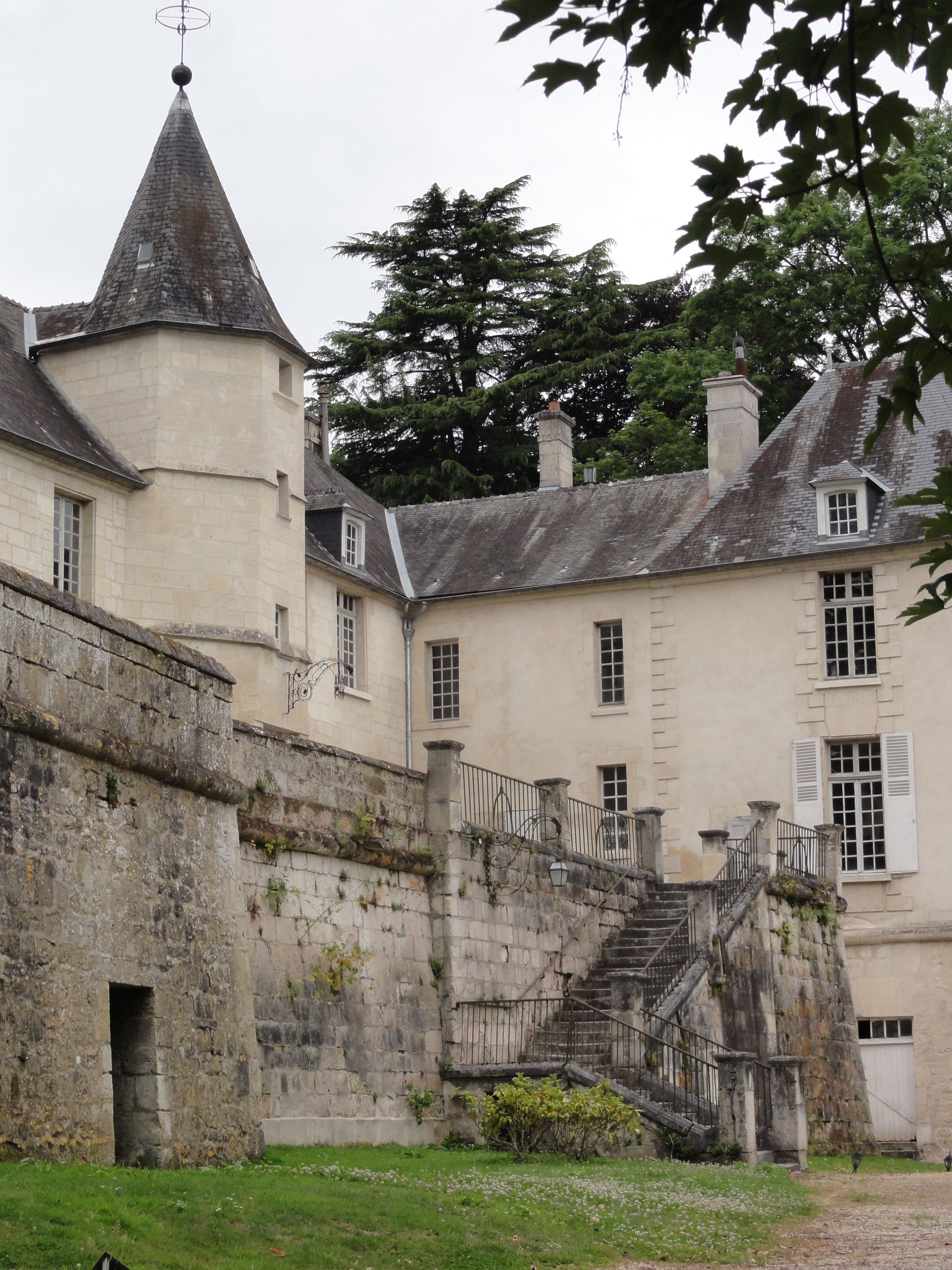 Vivières (Aisne) château MH